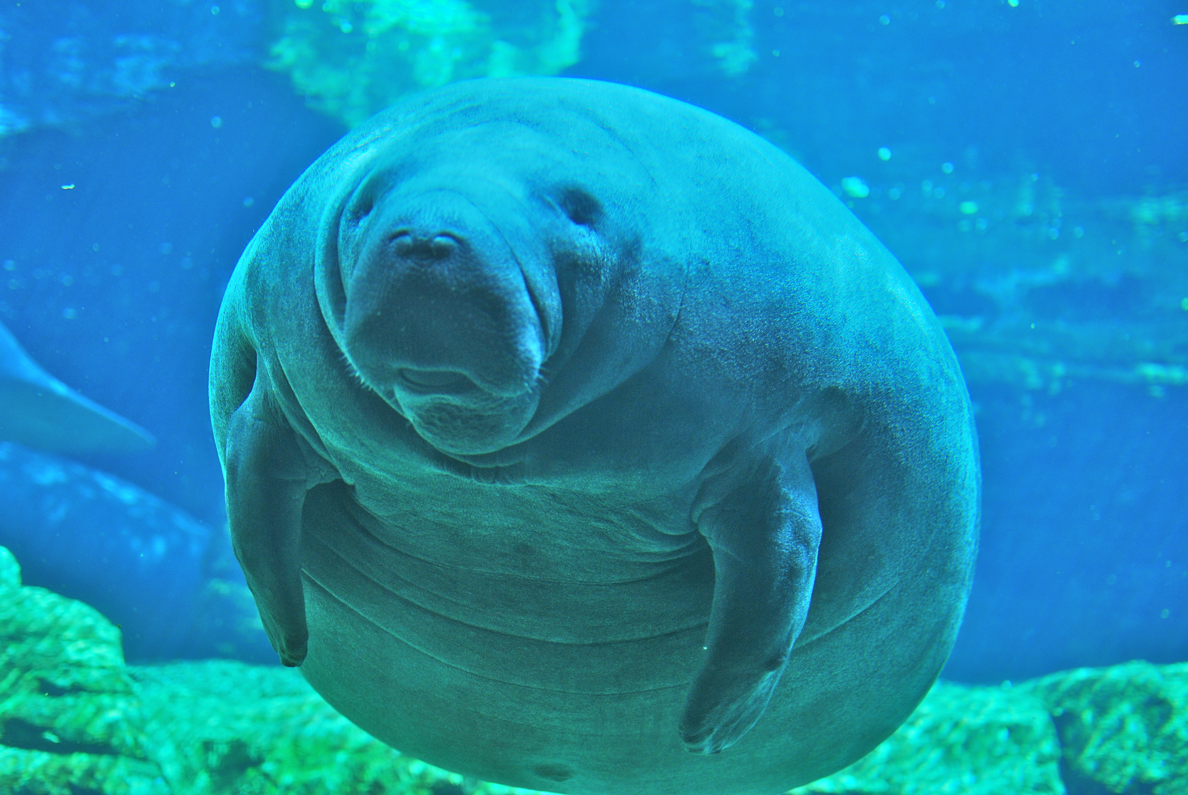 Manatee at the Sea World Exhibit in Orlando Florida